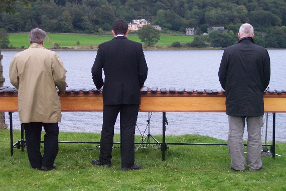 Author - Paul Wilson. Source - Coniston Water Festival event in October 2005